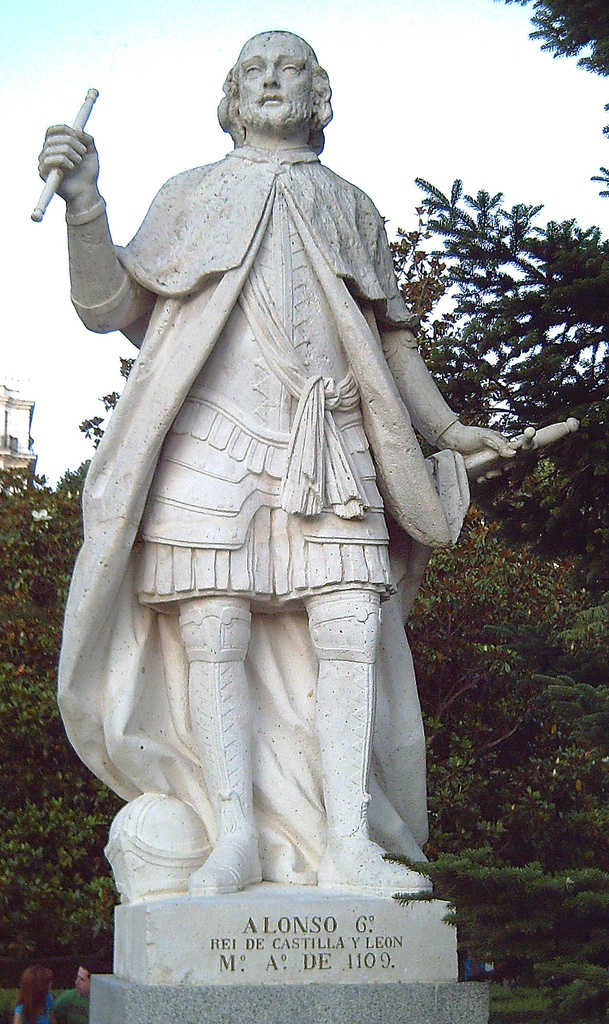 Statue of Alfonso VI of León and Castile (1040–1109) at the Sabatini Gardens in Madrid (Spain). Sculpted in white stone by Felipe del Corral between 1750 and 1753.